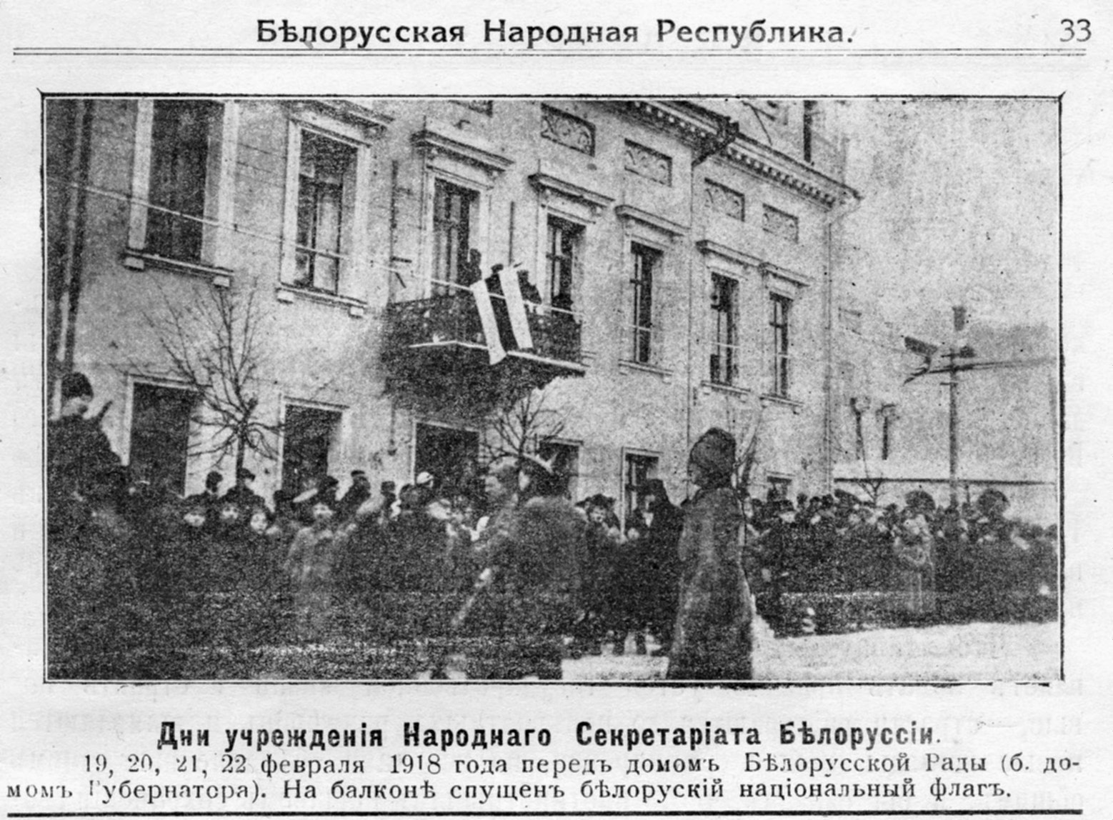 Belarusian national white-red-white flag on a house of National Secretariat of Belarusian People's Republic, 1918